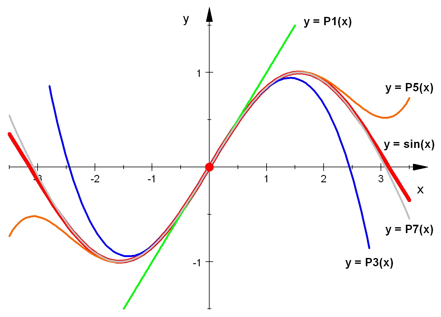 Approximation of the Function sin(x) by Taylor Polynoms of degree 1, 3, 5 and 7 (denoted P1, P3, P5 and P7 resp.) around the value x0 = 0